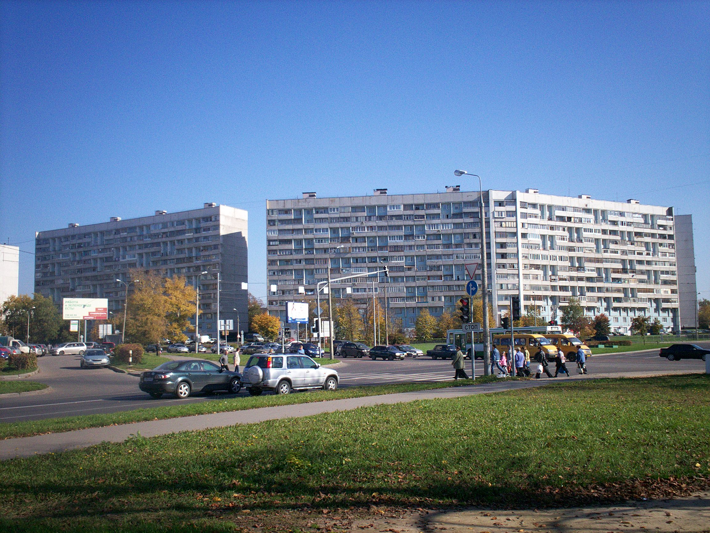 9th microdistrict of Zelenograd